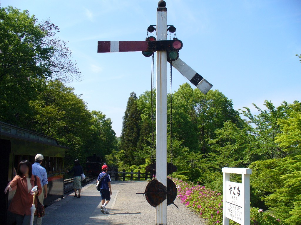 Dual arm semaphore signal preserved in Meiji Mura